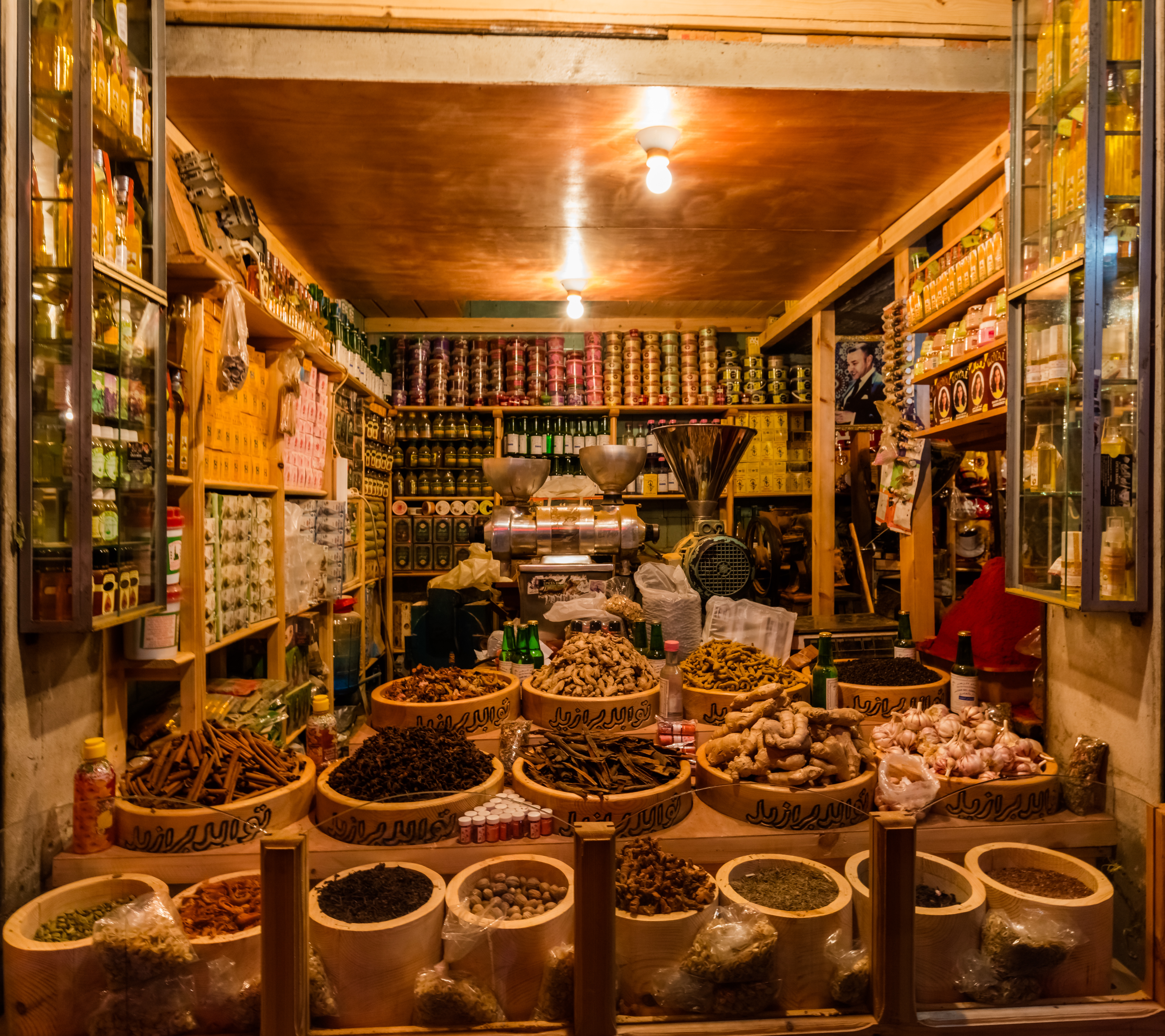 Shop in the April 9th 1947 Square, Tangier, Morocco